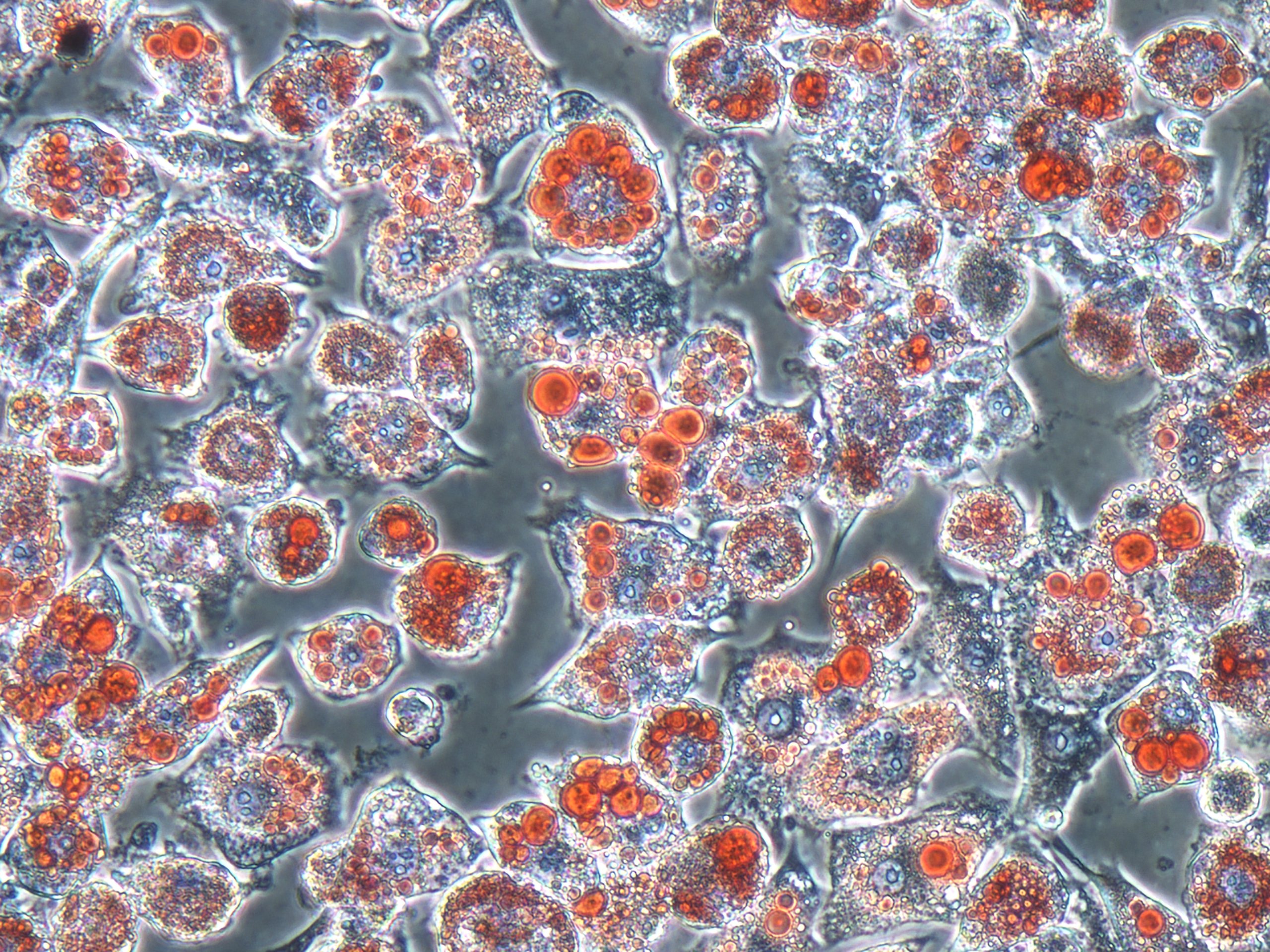 The preadipocyte cell line PA6 fully differentiated into adipocytes. The lipid vesicles in these adipocytes are stained using oil-red-O staining.